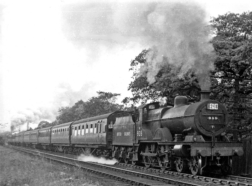 Up express ascending Lickey Incline, View SW, towards Bromsgrove, Worcester, Cheltneham, Gloucester and Bristol; ex-Midland Birmingham - Bristol main line. The two miles at 1-in-37 of the Lickey Incline is the steepest bank on any main line in Britain and in the days of Steam all but the lightest trains had to be banked up from Bromsgrove to Blackwell. This Weston-super-Mare - Birmingham express, headed by LMS Compound 4P 4-4-0 No. M935 (temporary number, later 40935) had the dedicated Lickey banker, 0-10-0 No. 22290 'Big Bertha', blasting behind.